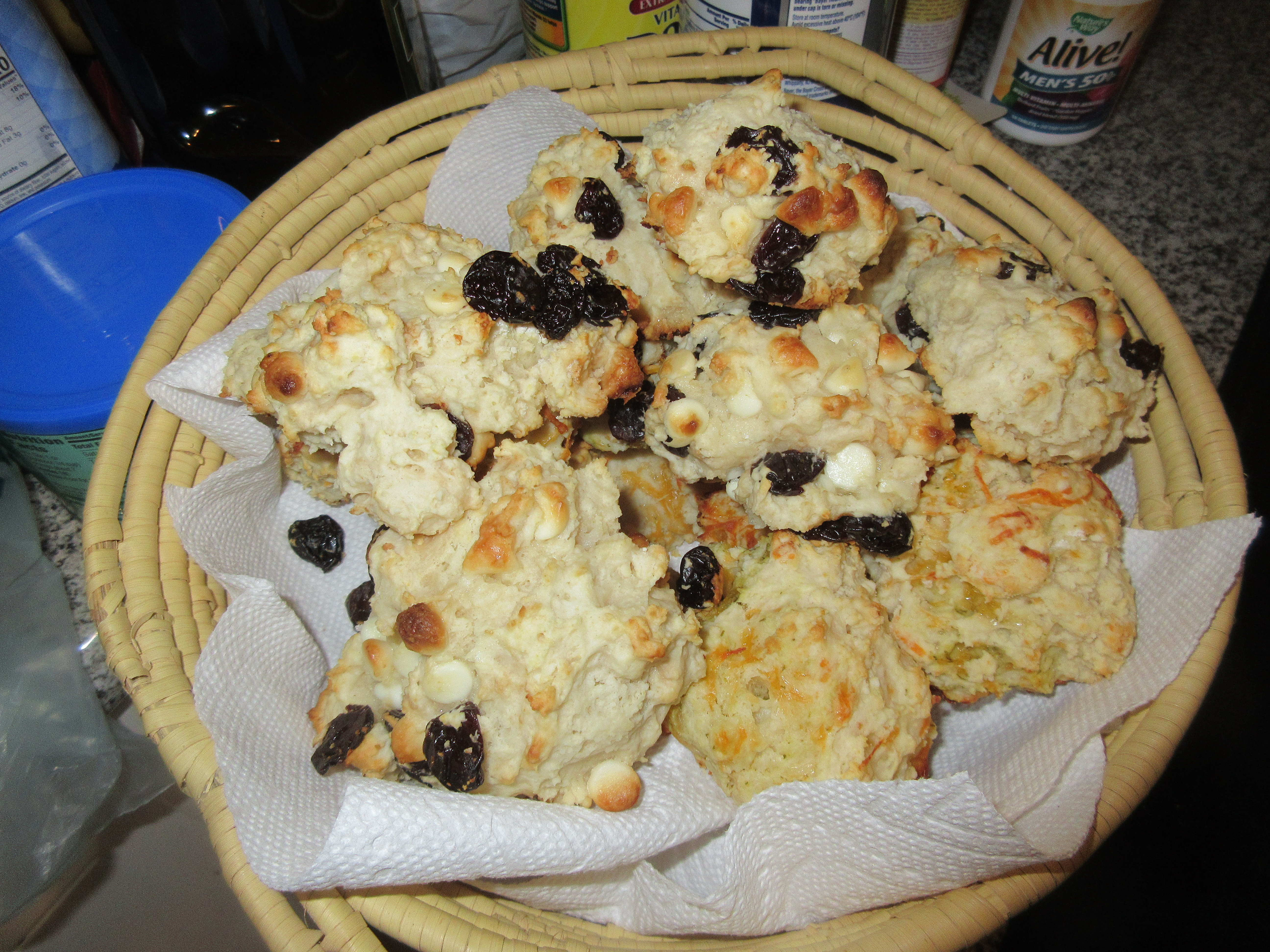 Basket of fresh baked scones. Cheddar-dill scones and cherry-white-chocolate scones.